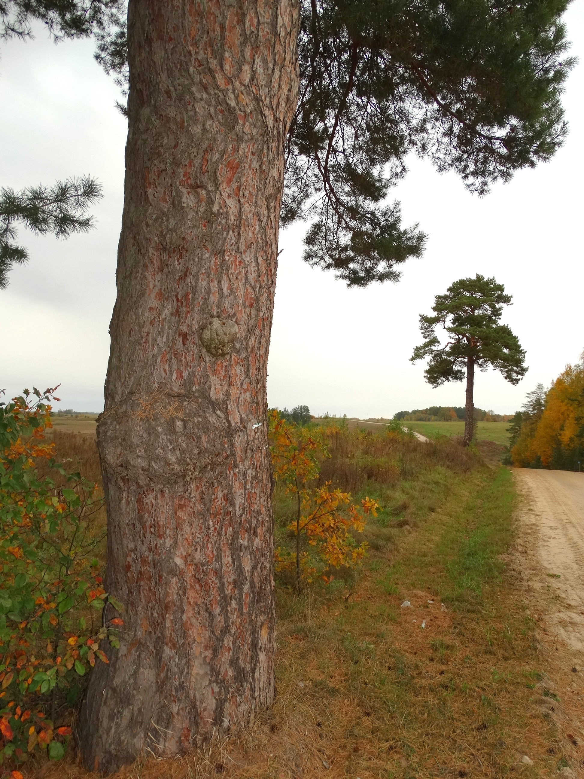 Pine, Paveisiejai, Lazdijai District, Lithuania